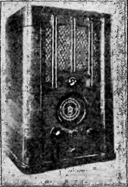 SVD-M radio receiver, USSR, 1937